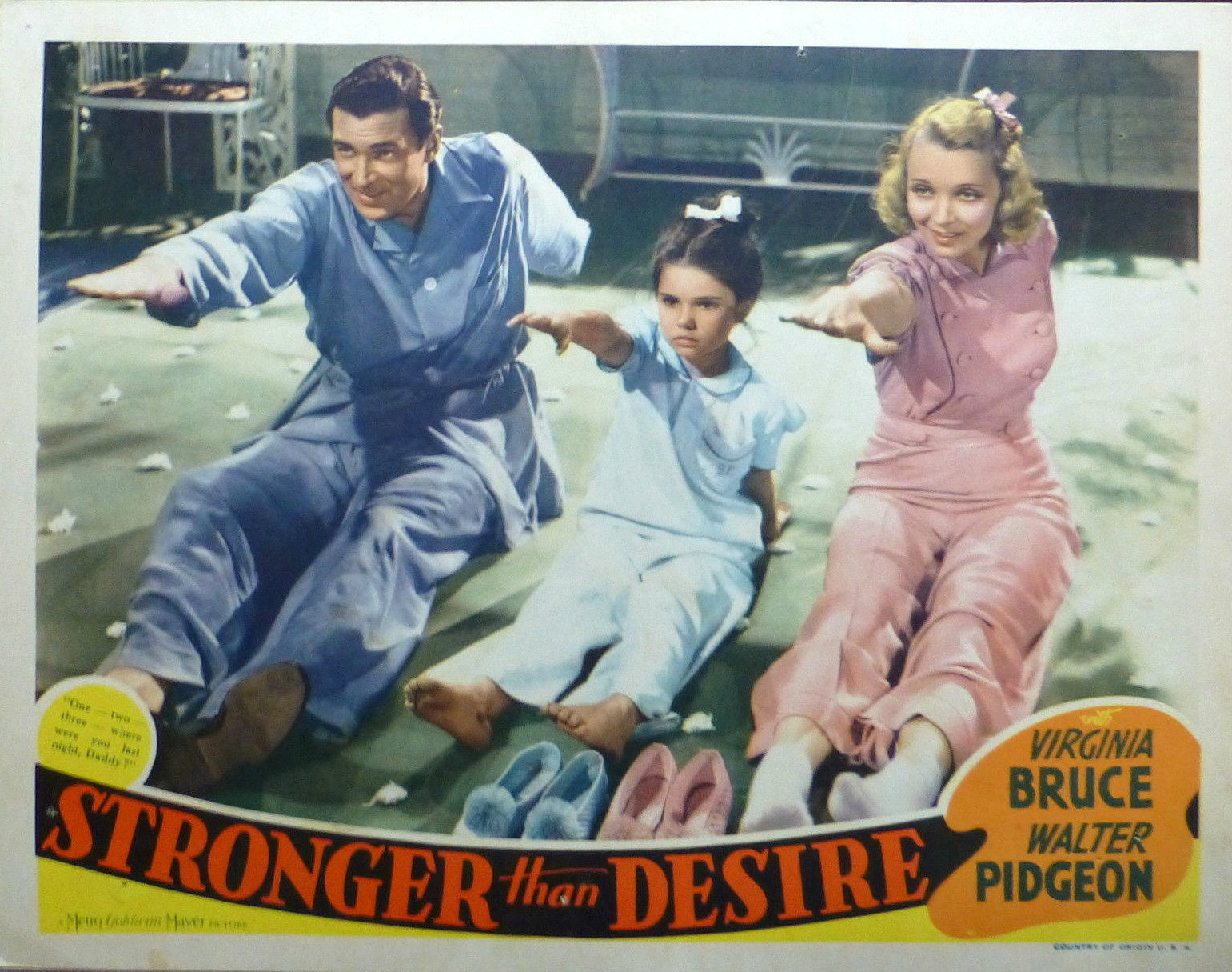 Lobby card from the American drama film Stronger Than Desire (1939).